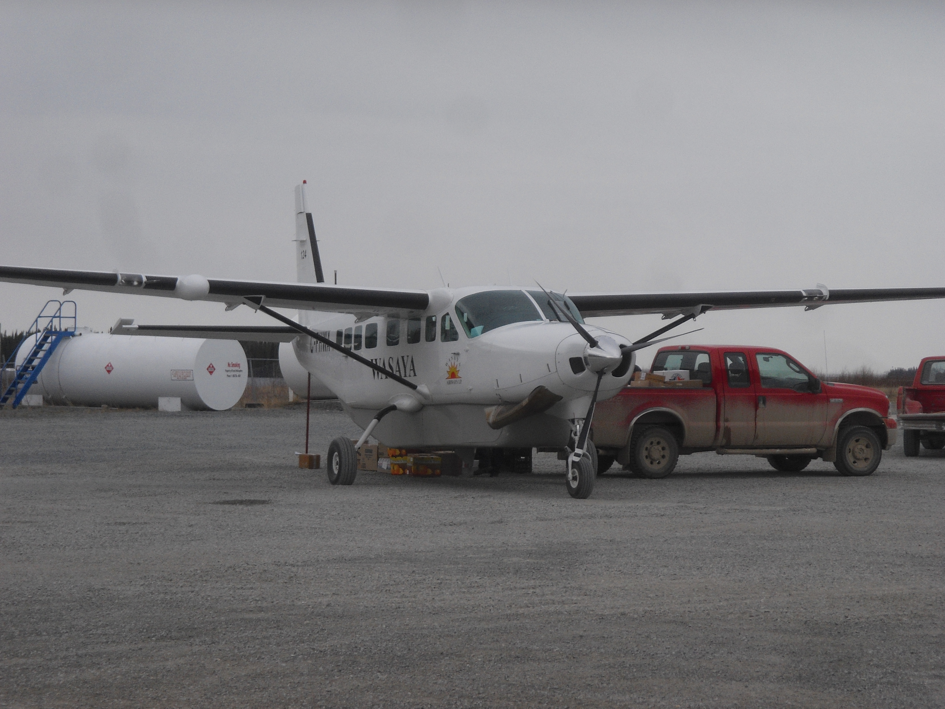 Picture taken in Big Trout Lake on Friday, May 18th, 2012.